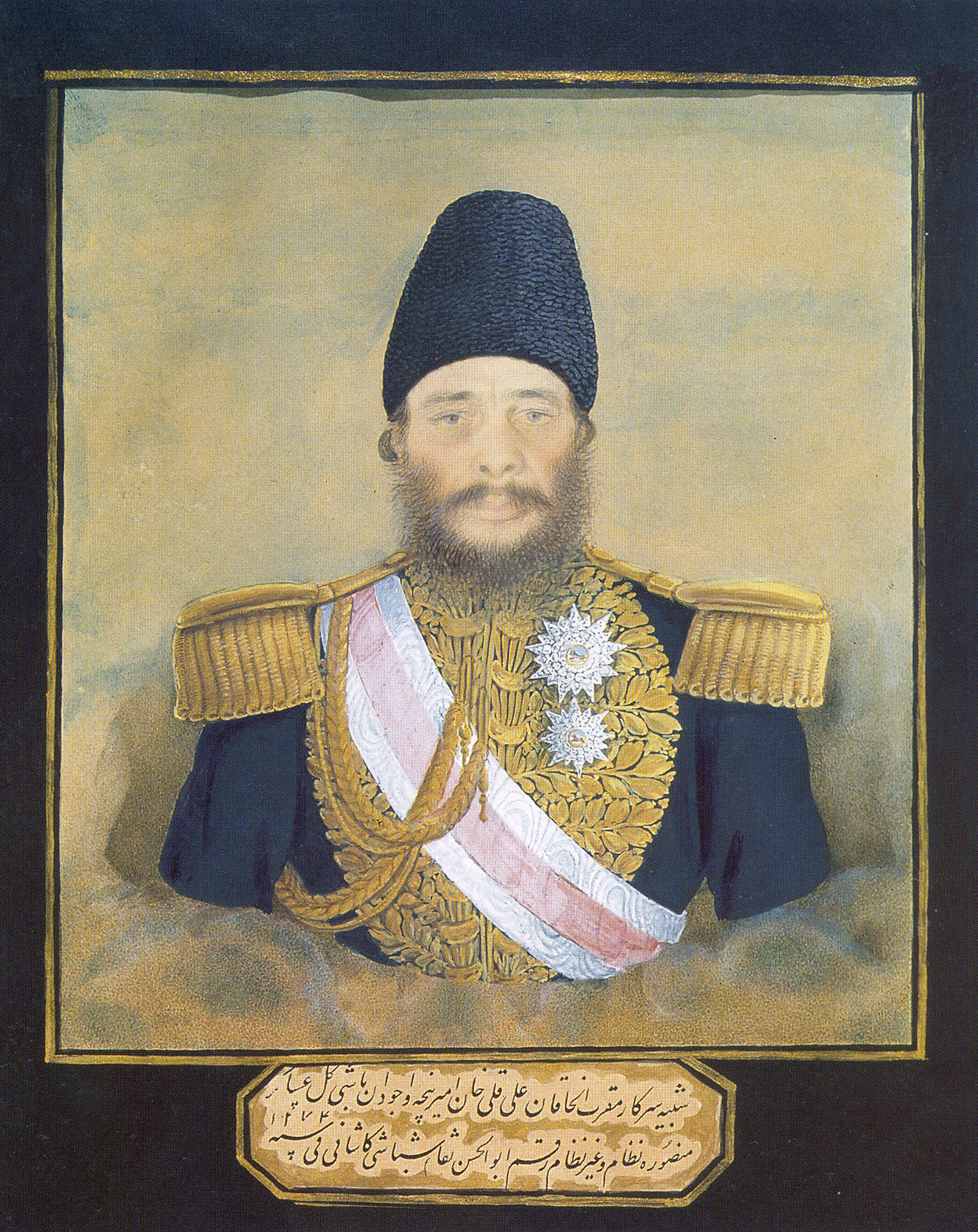 Ali-Qoli Khān Amir Panjeh, Chief of Staff Watercolor on paper 15*17 cm. Raqam Abol-Hassan Naqqāshbāhi Kāshāni saneh 1274 [1857]. Reza Abbasi Museum, Tehran, Inv. no. K.S. 2906/Radif 615